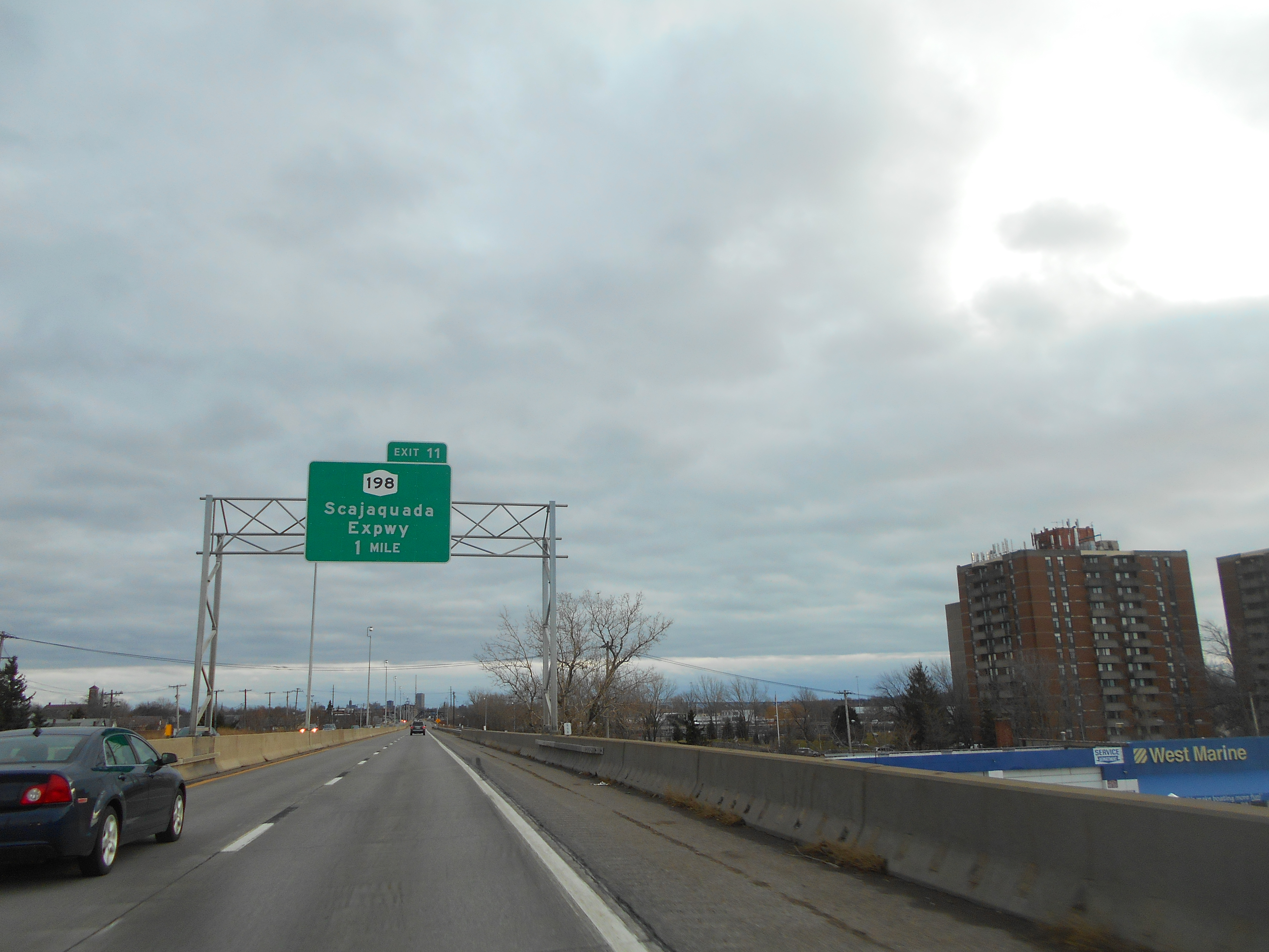 Interstate 190 approaching exit 11, NY 198.